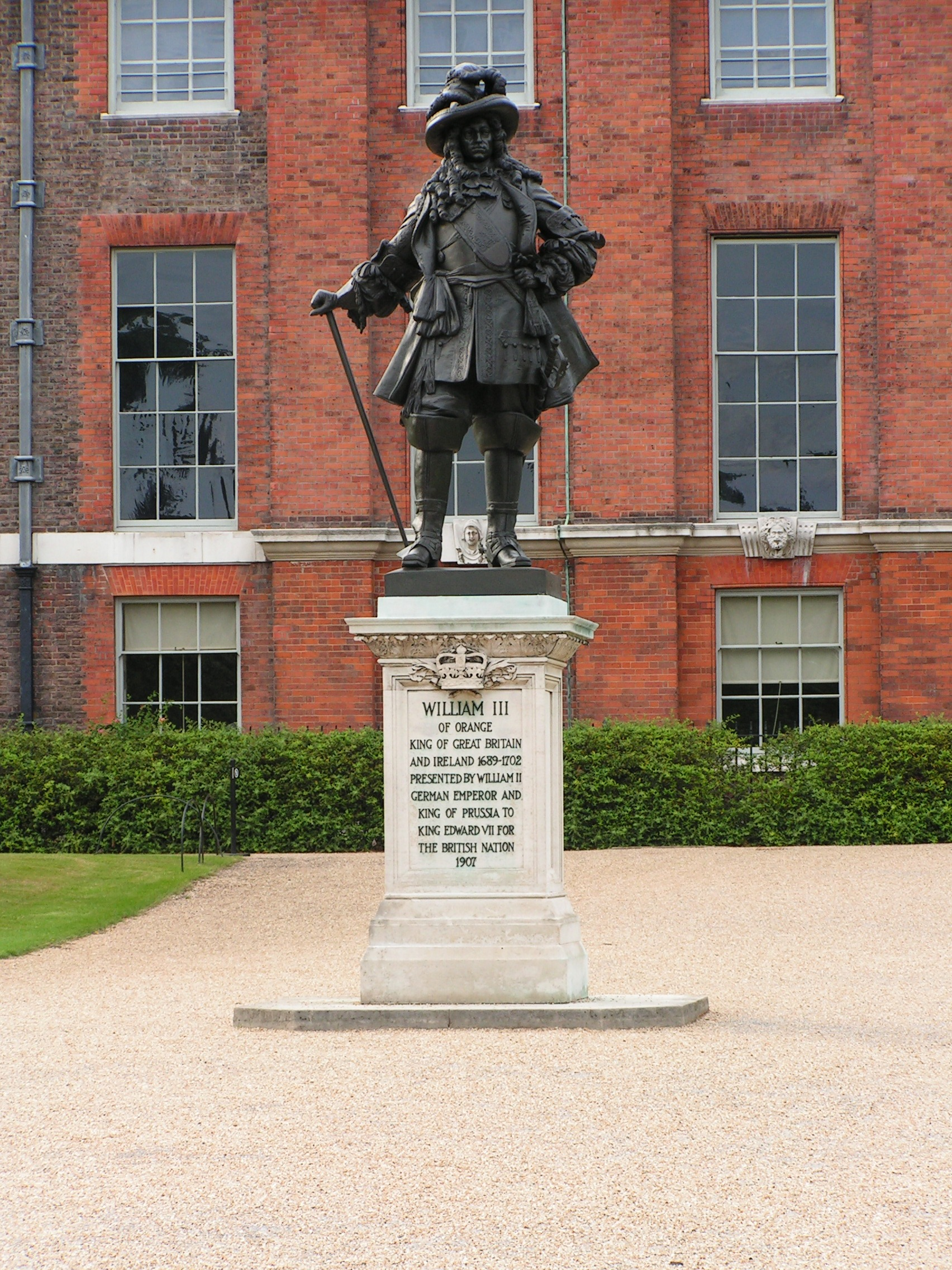 Statue of William III of England in front of Kensington Palace by sculpure Heinrich Baucke (1875 – 1915 ), 1907